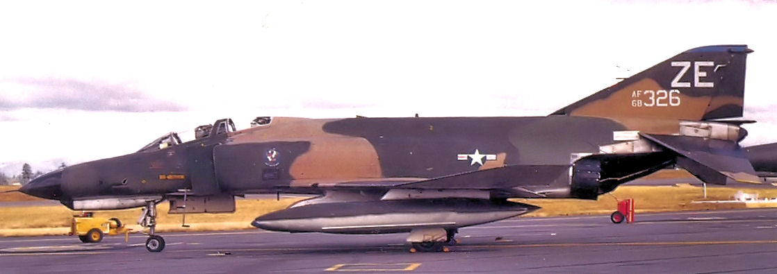 478th Tactical Fighter Squadron - McDonnell Douglas F-4E-37-MC Phantom - 68-0326